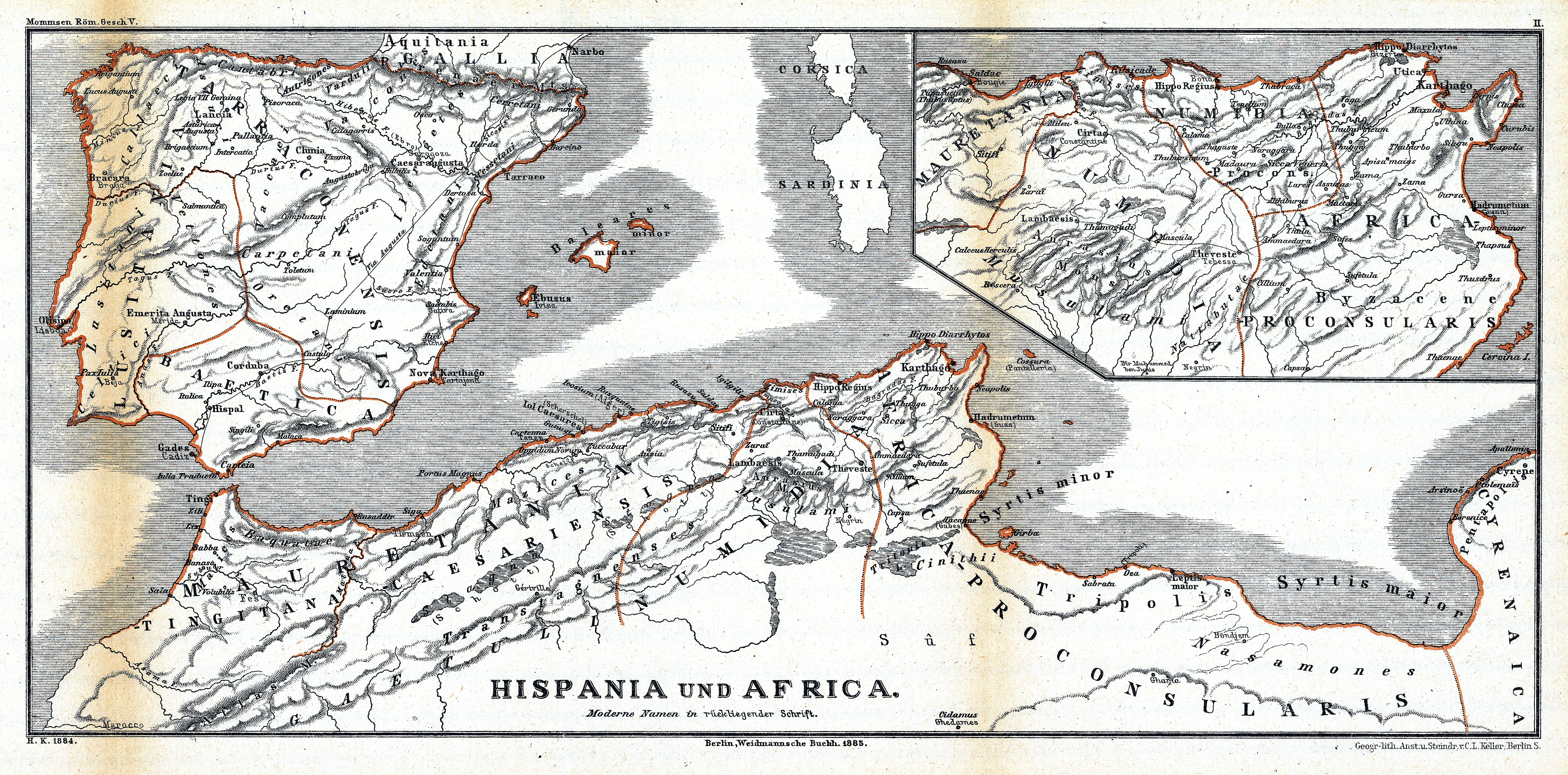 maps of roman provinces, from the book "Römische Provinzen", part V, by Theodor Mommsen ; roman provinces Hispania et Africa; cutout from this map are pictures: File:Karte aus dem Buch Römische Provinzen von Theodor Mommsen 1921 10.jpg File:Karte aus dem Buch Römische Provinzen von Theodor Mommsen 1921 11.jpg File:Karte aus dem Buch Römische Provinzen von Theodor Mommsen 1921 12.jpg File:Karte aus dem Buch Römische Provinzen von Theodor Mommsen 1921 13.jpg File:Karte aus dem Buch Römische Provinzen von Theodor Mommsen 1921 14.jpg